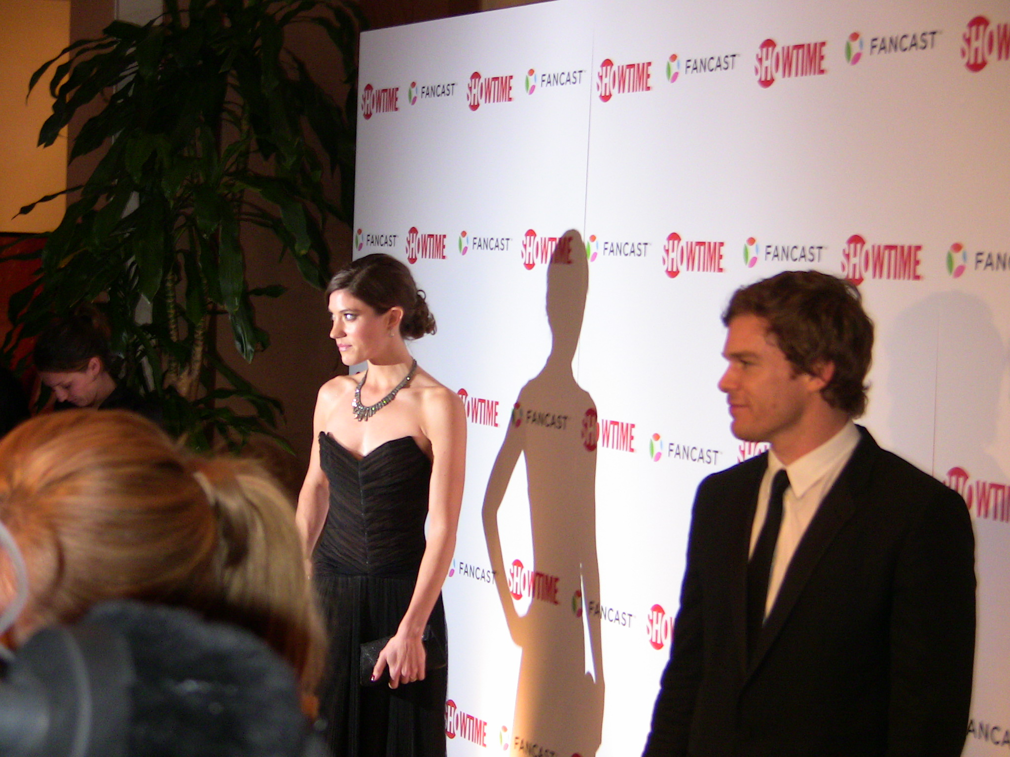 Jennifer Carpenter (left) and Michael C. Hall at the Showtime Golden Globes Party, The Peninsula Hotel, Beverly Hills, Calif. - Jan. 11, 2009